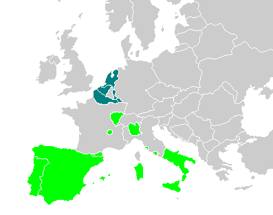 European lands rules by the Spanish crown about 1580. Based on the Wikimedia blank map of Europe